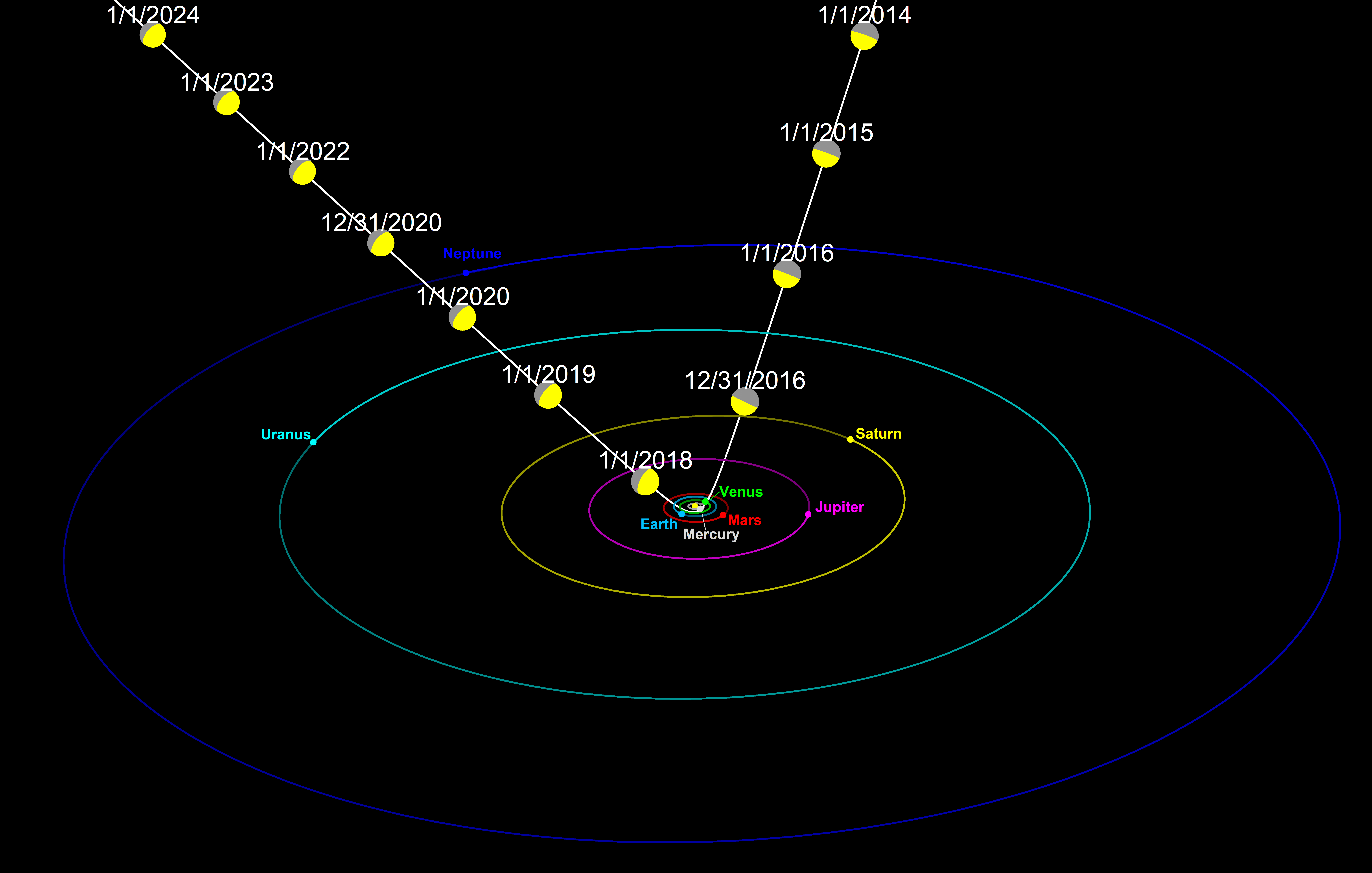 en:`Oumuamua hyperbolic trajectory across full solar system, with annual markers, and planet positions on 1/1/2018